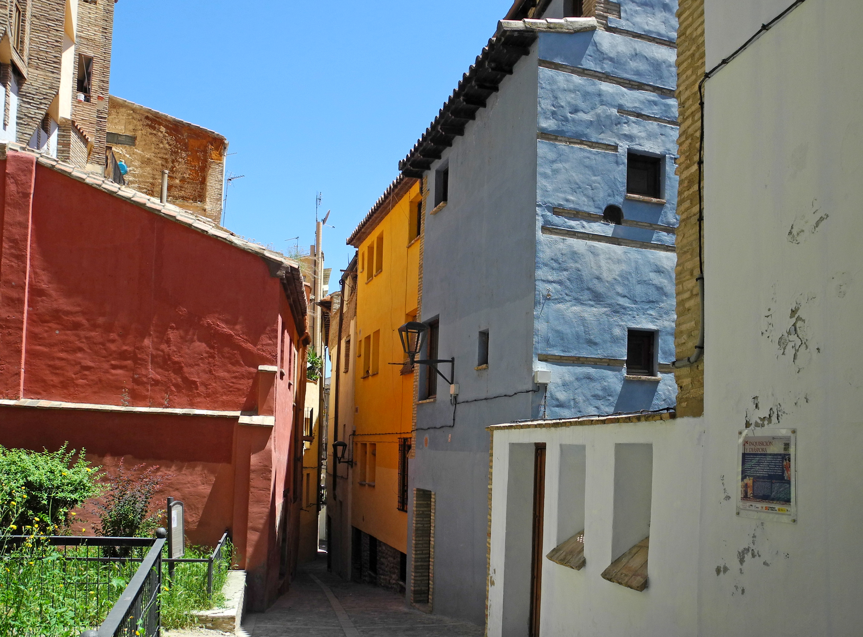 Alley and houses in the old town. Tarazona, Saragossa, Aragon, Spain